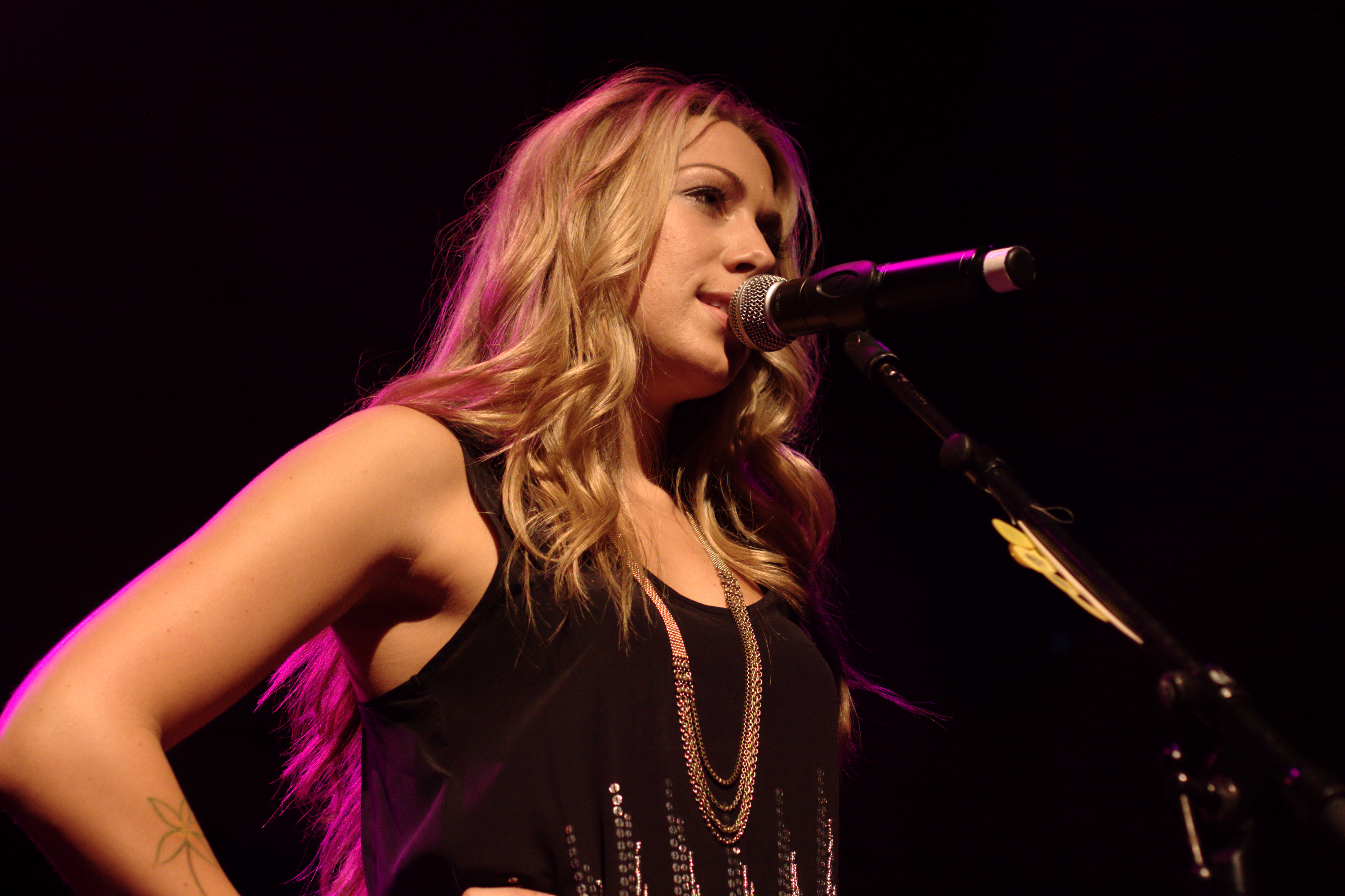 Colbie Caillat playing in Paradiso, Amsterdam on 2009-07-22